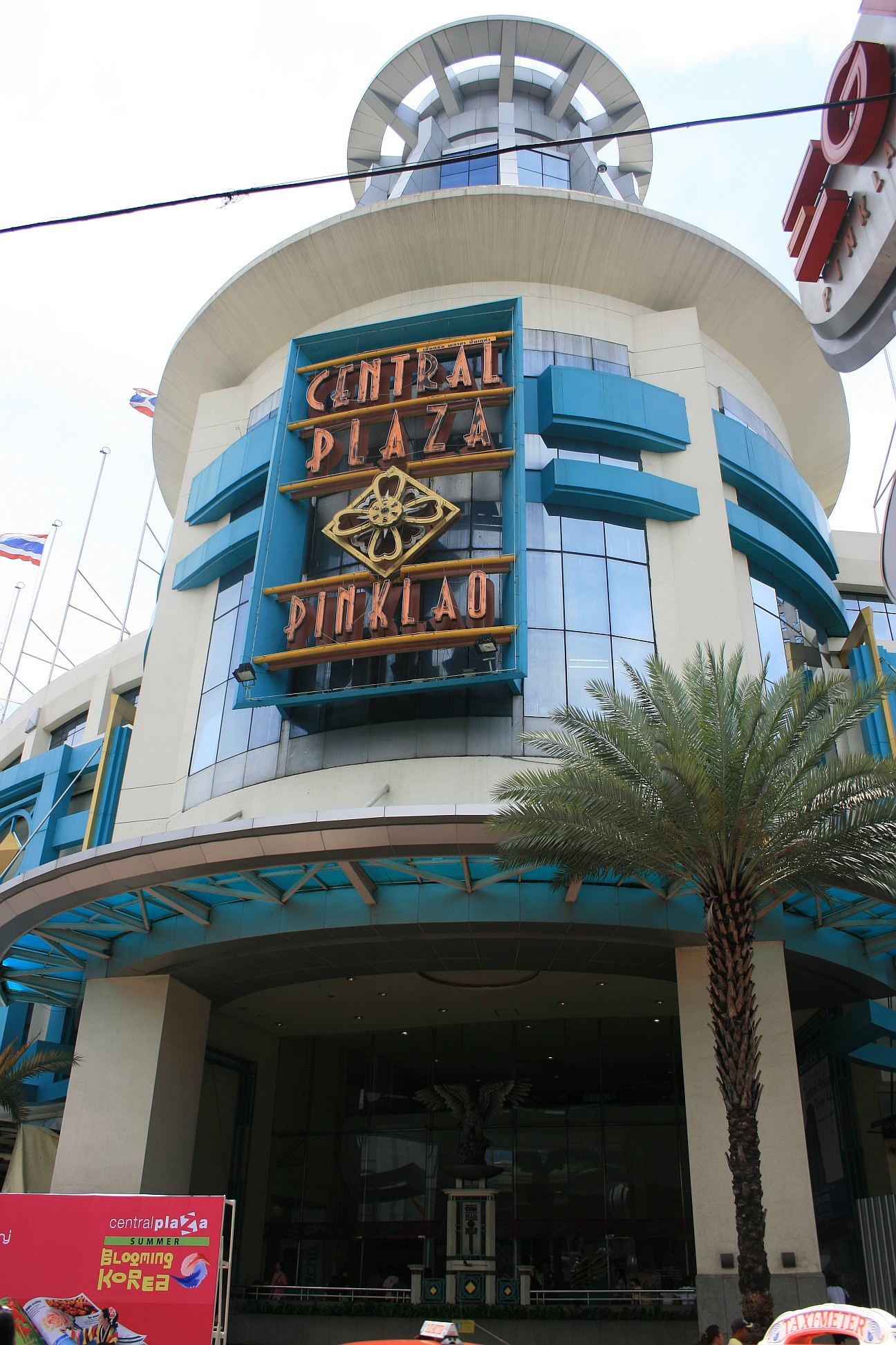 Entrance of the Central Pinklao shopping Mall, Bangkok